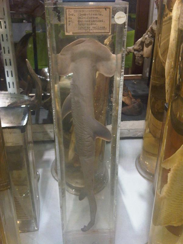 Smooth hammerhead (Sphyrna zygaena) in Grant Museum of Zoology, London, England.